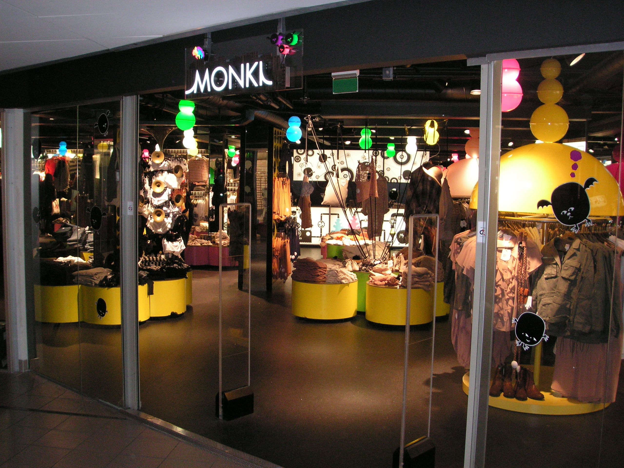 Monki store in Umeå, Sweden.